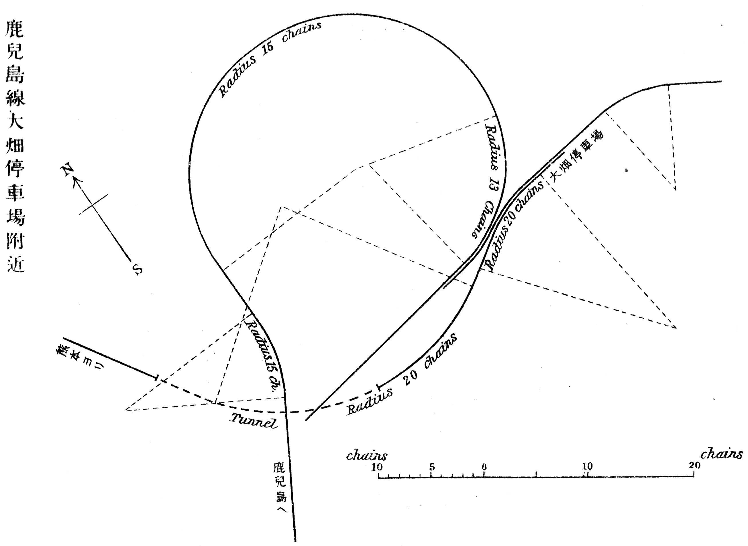 Plan of loop railway at Okoba Station on Hisatsu Line of Kyushu Railway Company in Kumamoto Prefecture, Japan